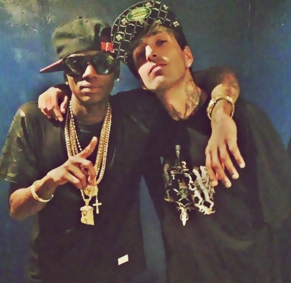 Soulja Boy and Mr. Thug in 2013.